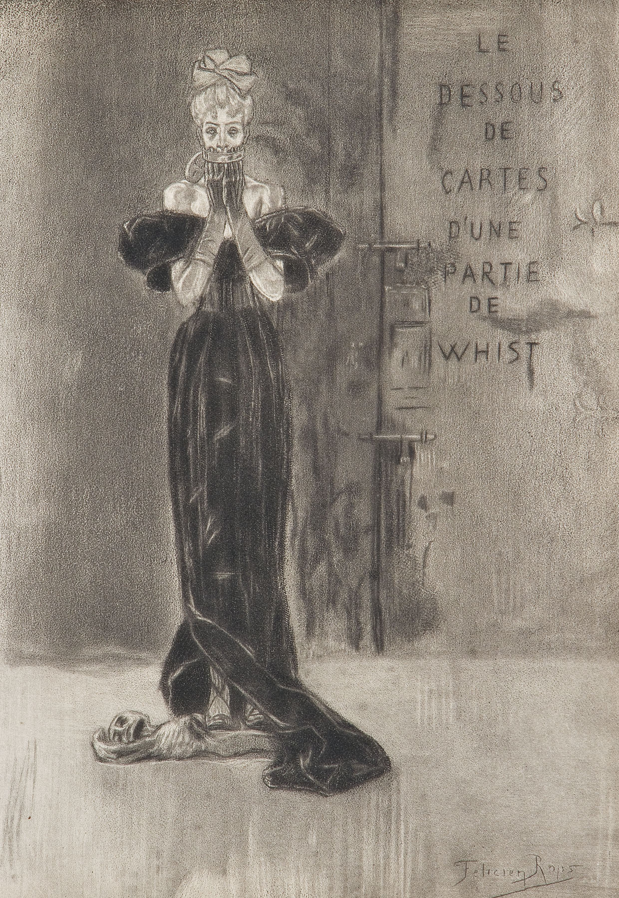 Le diable dupé par les femmes. 1881. Radierung auf Simili-Japan. Unten rechts mit Bleitsift signiert. 11,9 x 7,4 cm. Illustration zu Les Diaboliques von Jules Barbey d'Aurevilly.